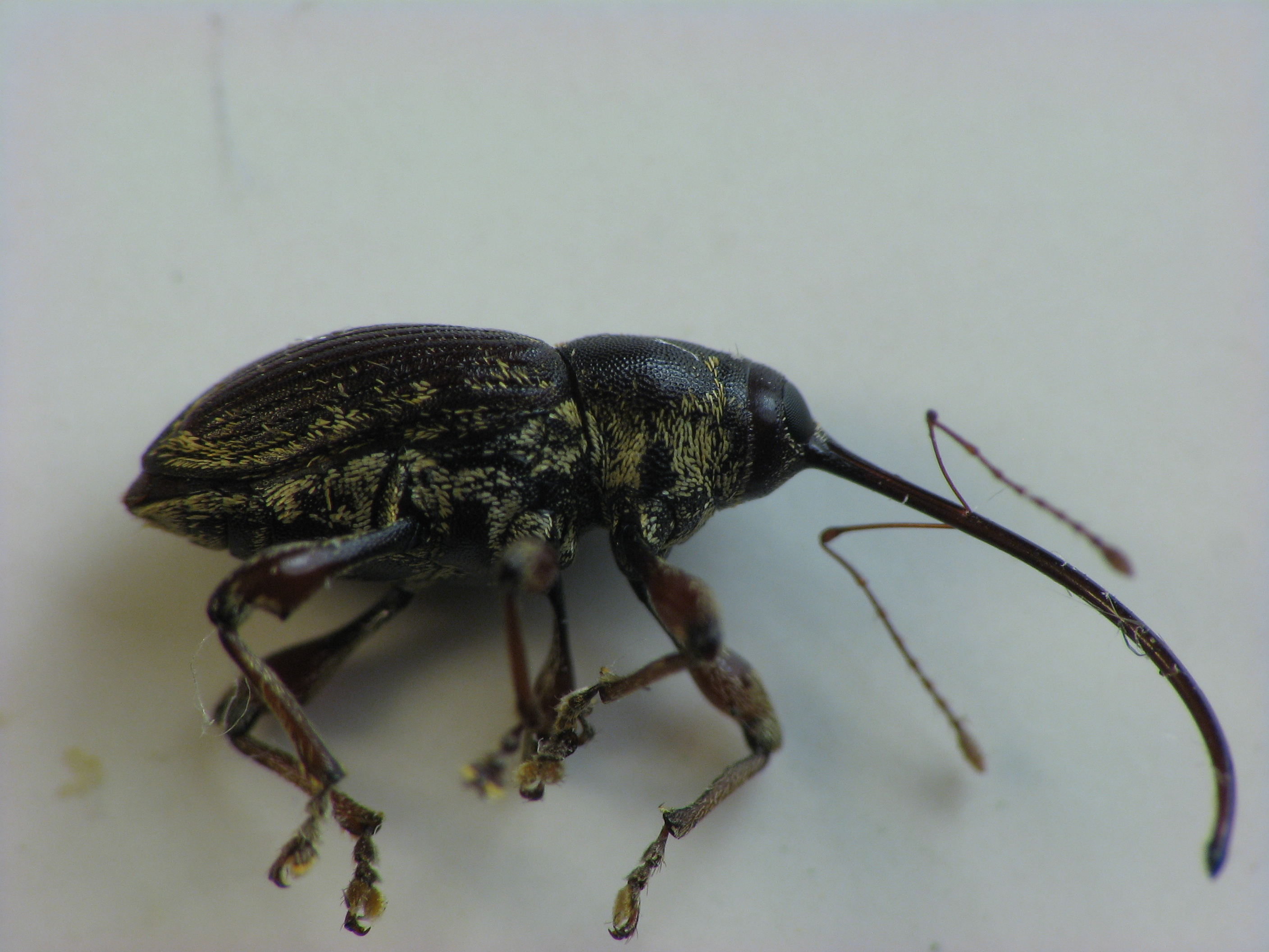 Small chestnut weevil, Curculio sayi (probably female). Size: Body 6 mm, snout 6.5 mm. Pennypack Restoration Trust, Montgomery County, Pennsylvania, USA.